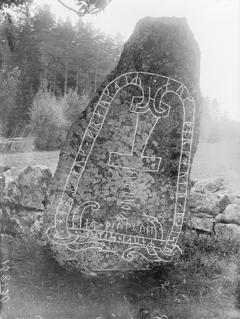 Rune stone Sö 111 in Stenkvista, with a Thor's Hammer. The inscription says: "Helge and Fröger and Torgöt raised rune-decorated landmarks in memory of Tjudmund, their father".